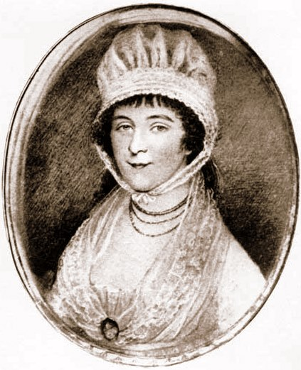 Dolley Payne Madison by James Peale, 1794